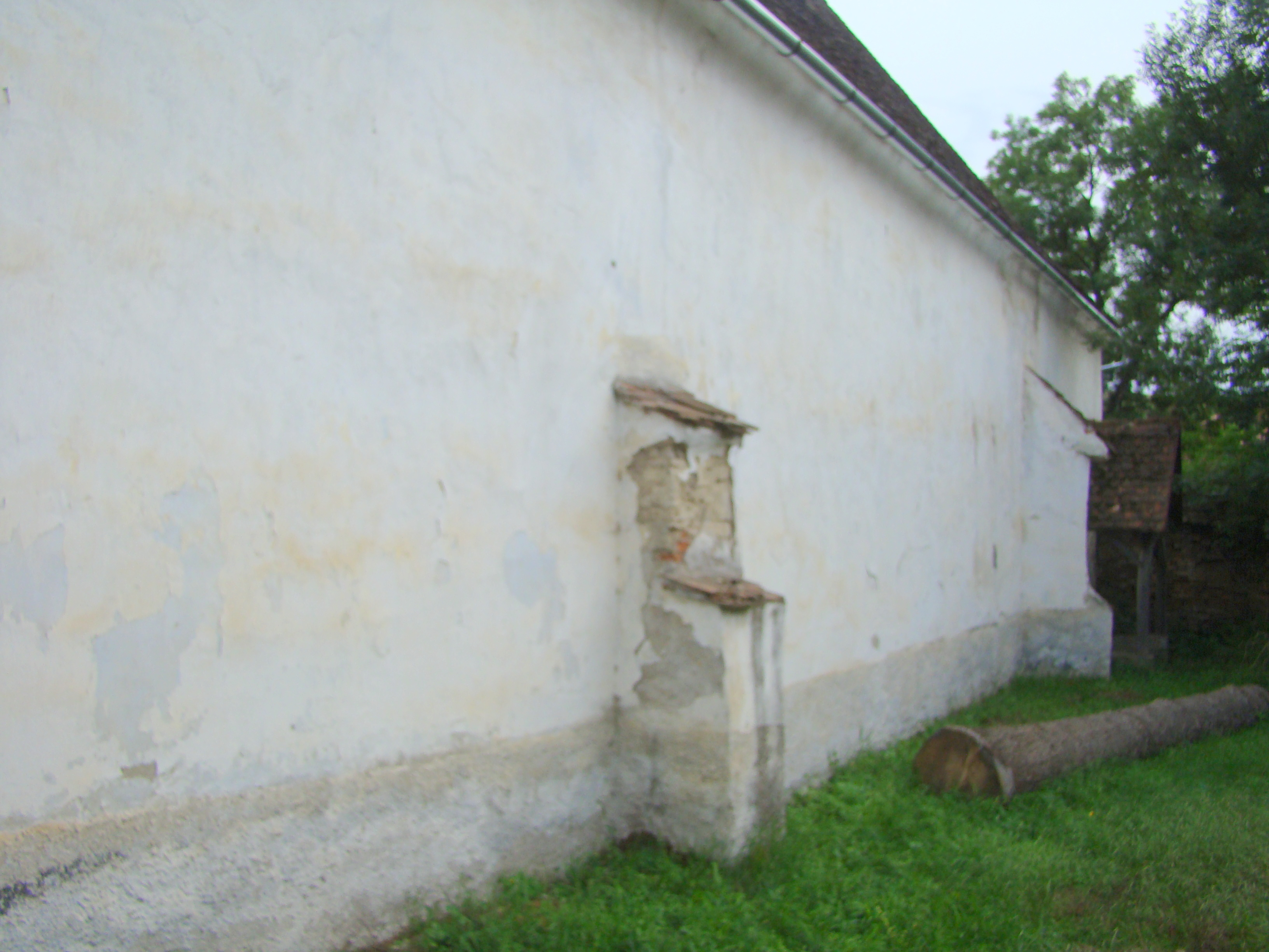 Lutheran church in Seleuș (Zagăr), Mureș county, Romania